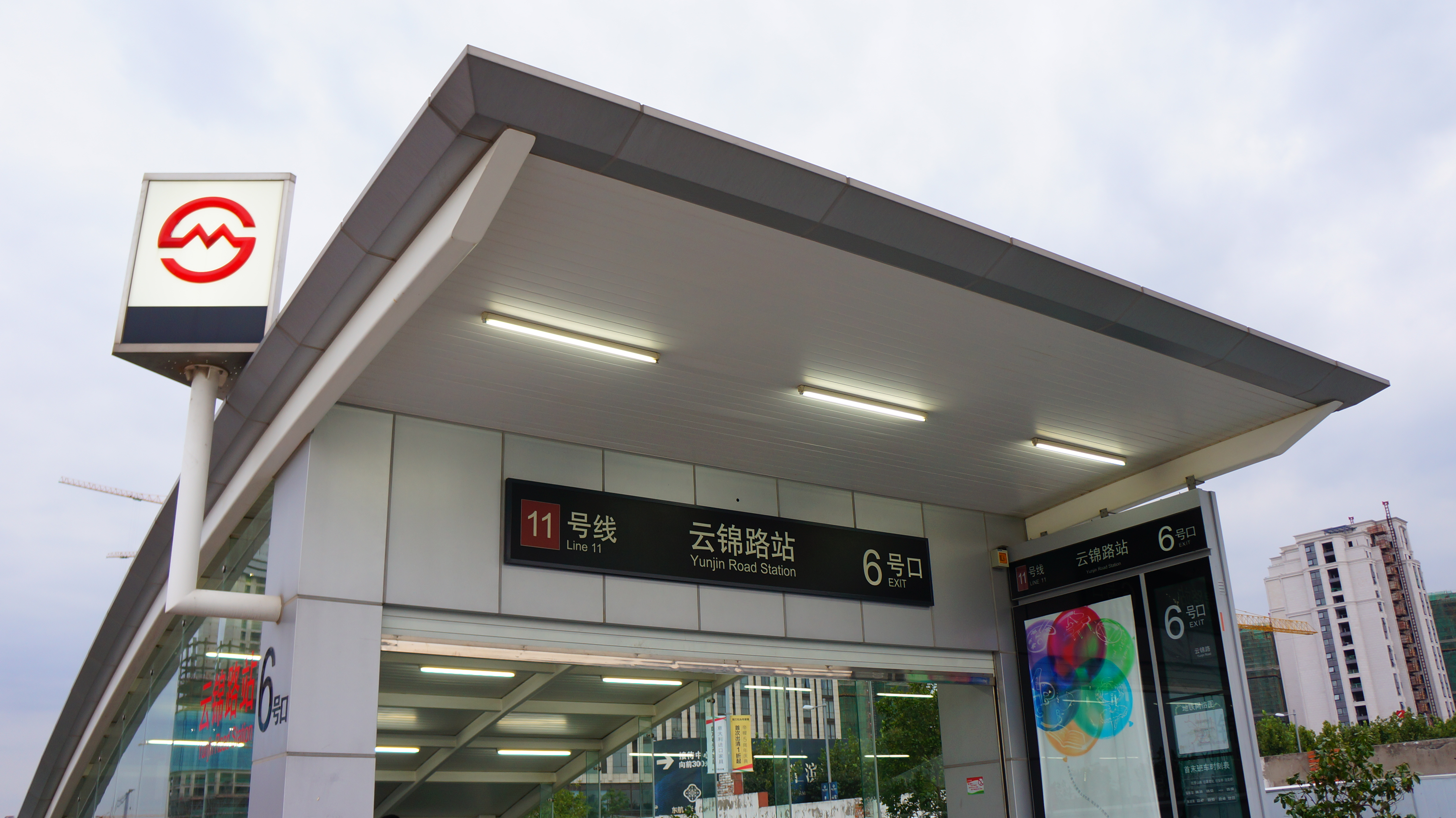 201509 Exit 6 of Yunjin Road Station